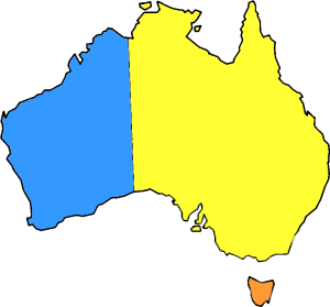 Australian states as at 1825